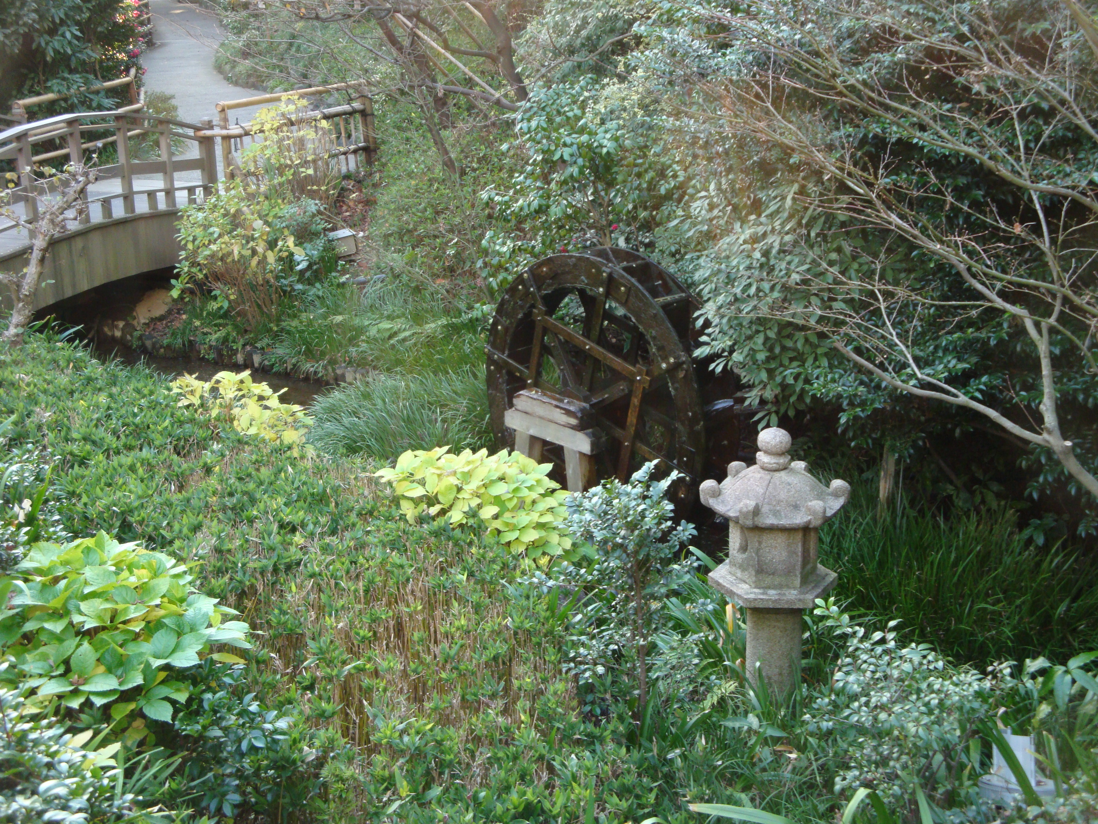 Chinzan-so Garden, Tokyo, Japan